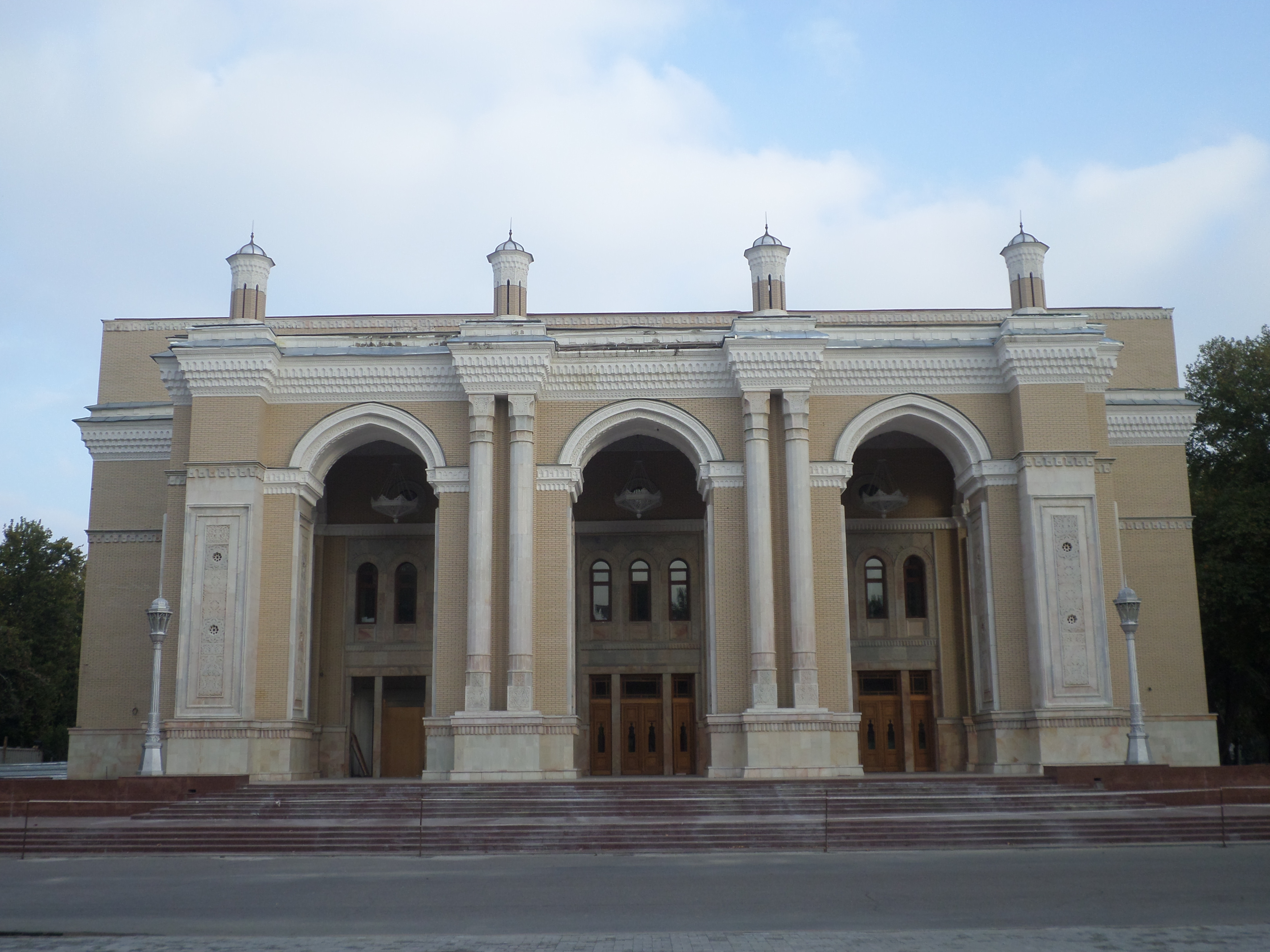 Theatre Alisher Navoi